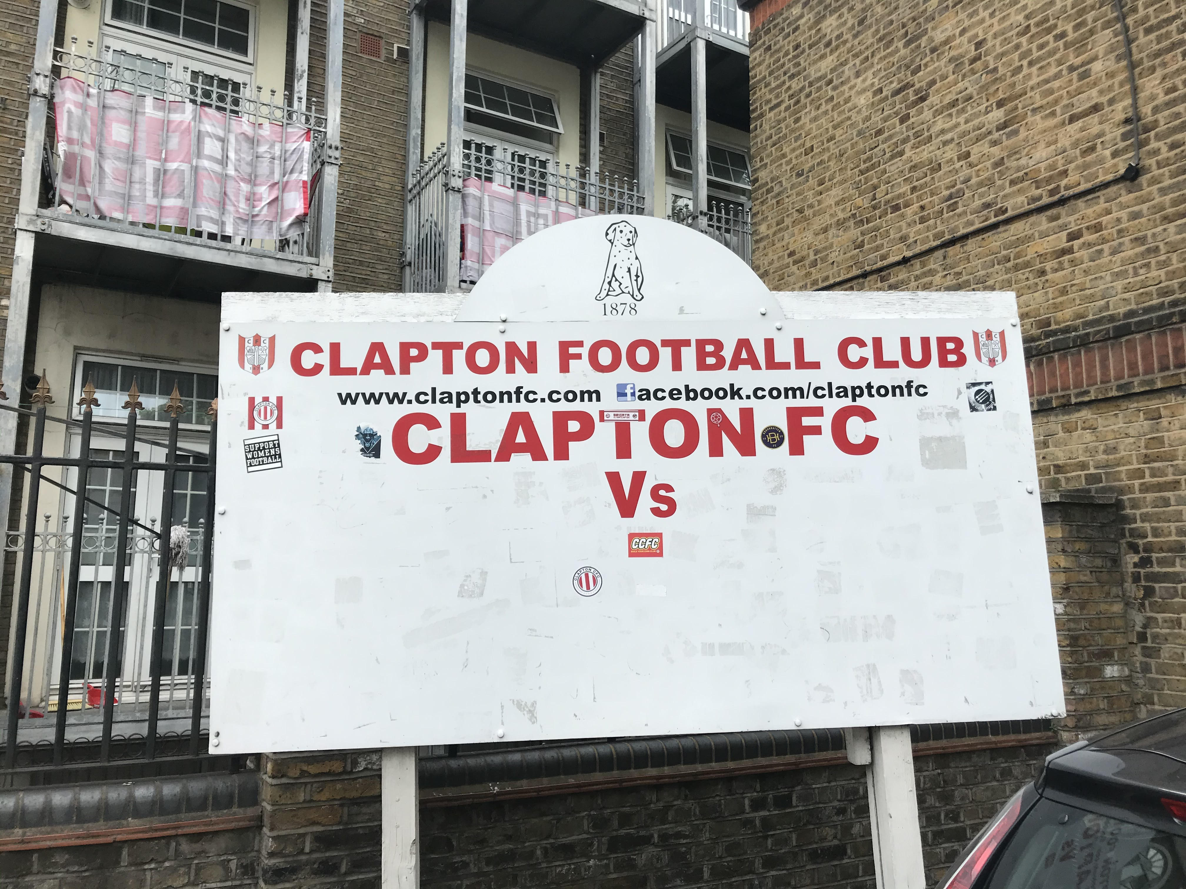 Entrance sign outside the Old Spotted Dog Ground.